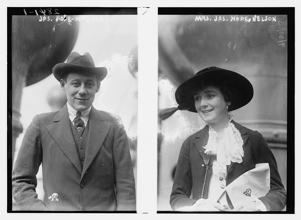 Mr. and Mrs. Jas. Hope - Nelson (LOC) Bain News Service,, publisher. Sir James Hope Nelson (1883-1960) of the Nelson baronets and his wife, Isabel Valle in 1913 [between ca. 1910 and ca. 1915] 1 negative : glass ; 5 x 7 in. or smaller. Notes: Title from unverified data provided by the Bain News Service on the negatives or caption cards. Forms part of: George Grantham Bain Collection (Library of Congress). Format: Glass negatives. Repository: Library of Congress, Prints and Photographs Division, Washington, D.C. 20540 USA, General information about the Bain Collection is available at Persistent URL: Call Number: LC-B2- 2841-1